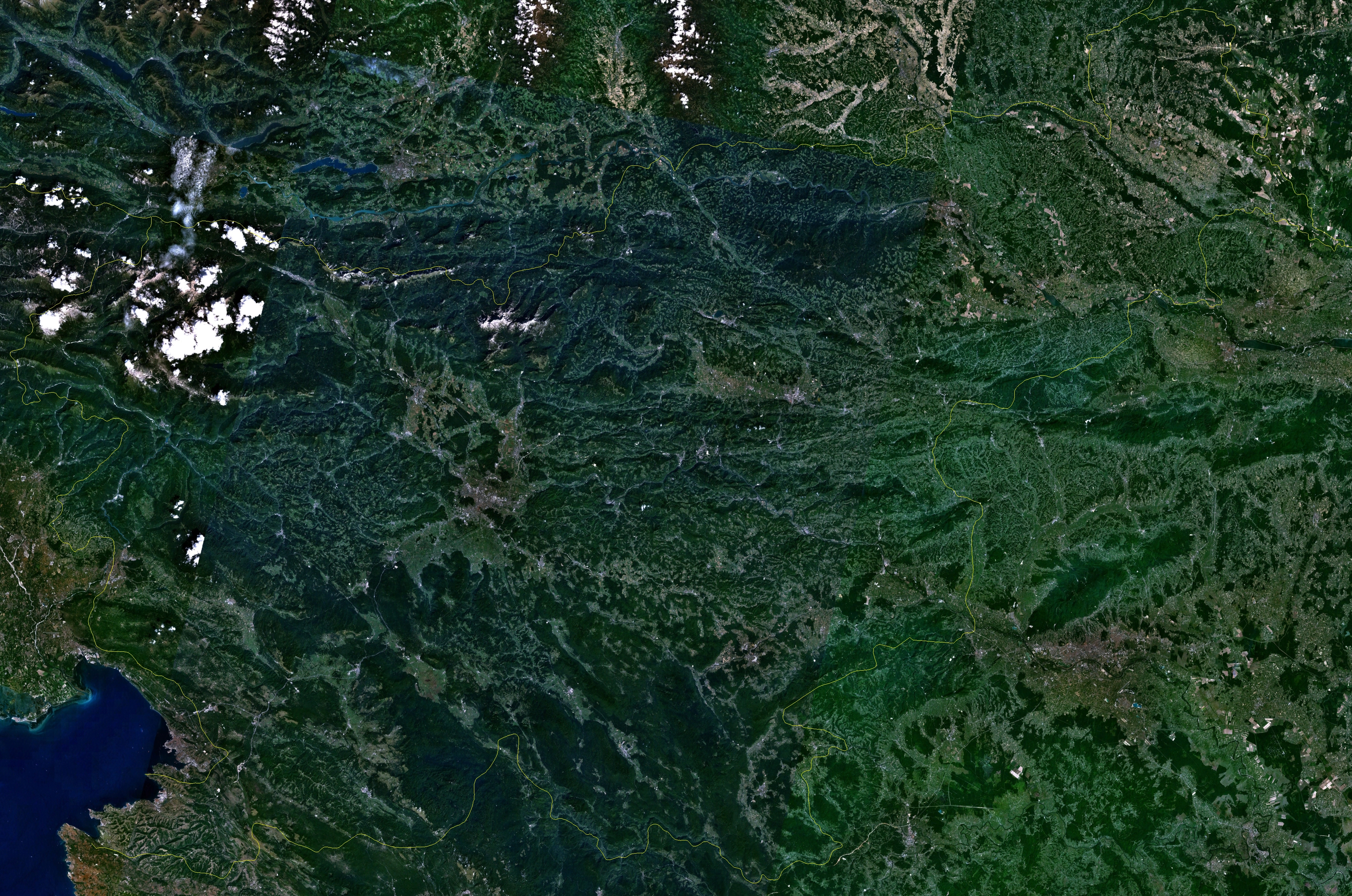 Satellite view of Slovenia. NLT Landsat7 image.